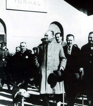 Mustafa Kemal at Turhal station, 1930